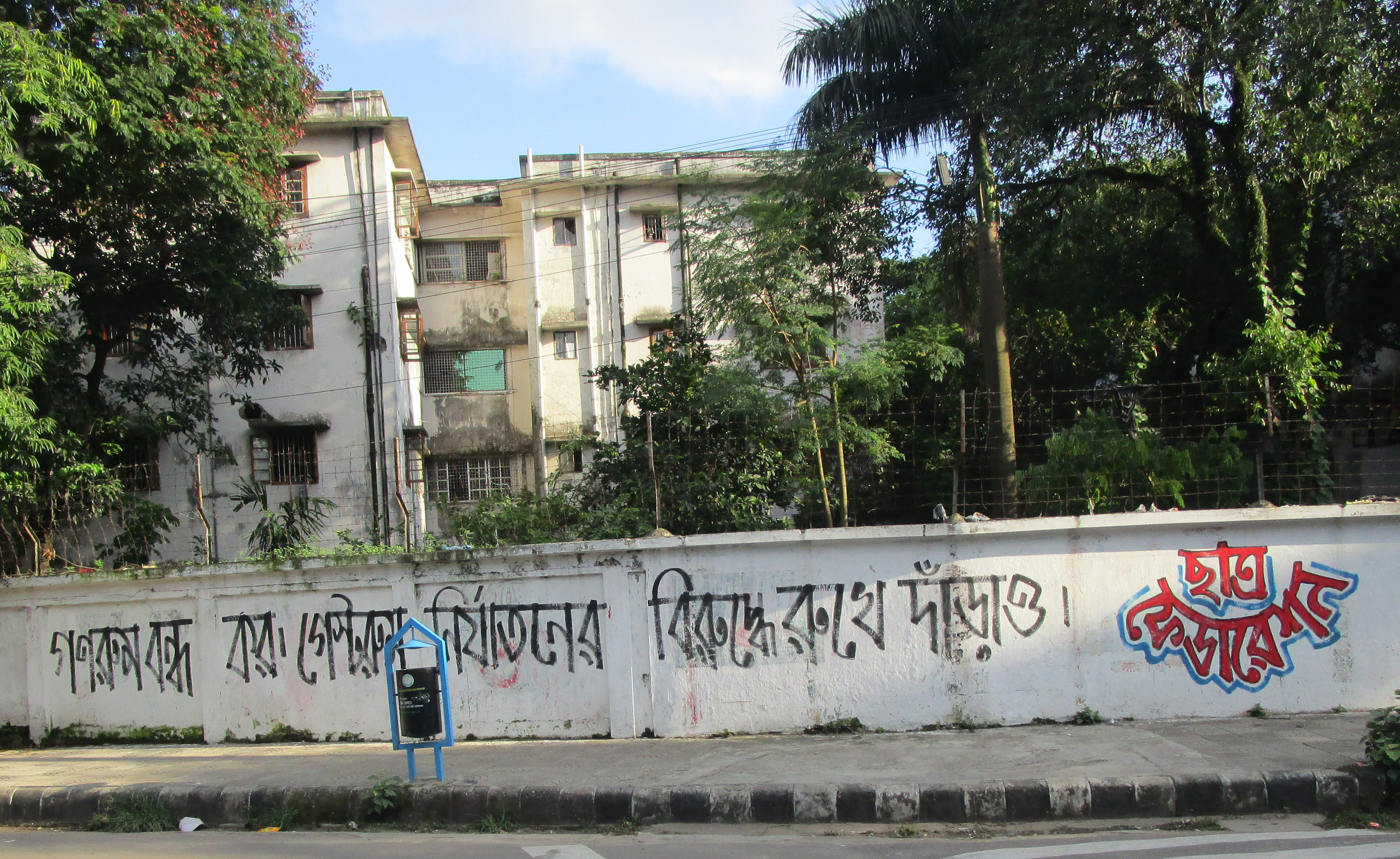 Bangladesh Chatra Federation wall writing